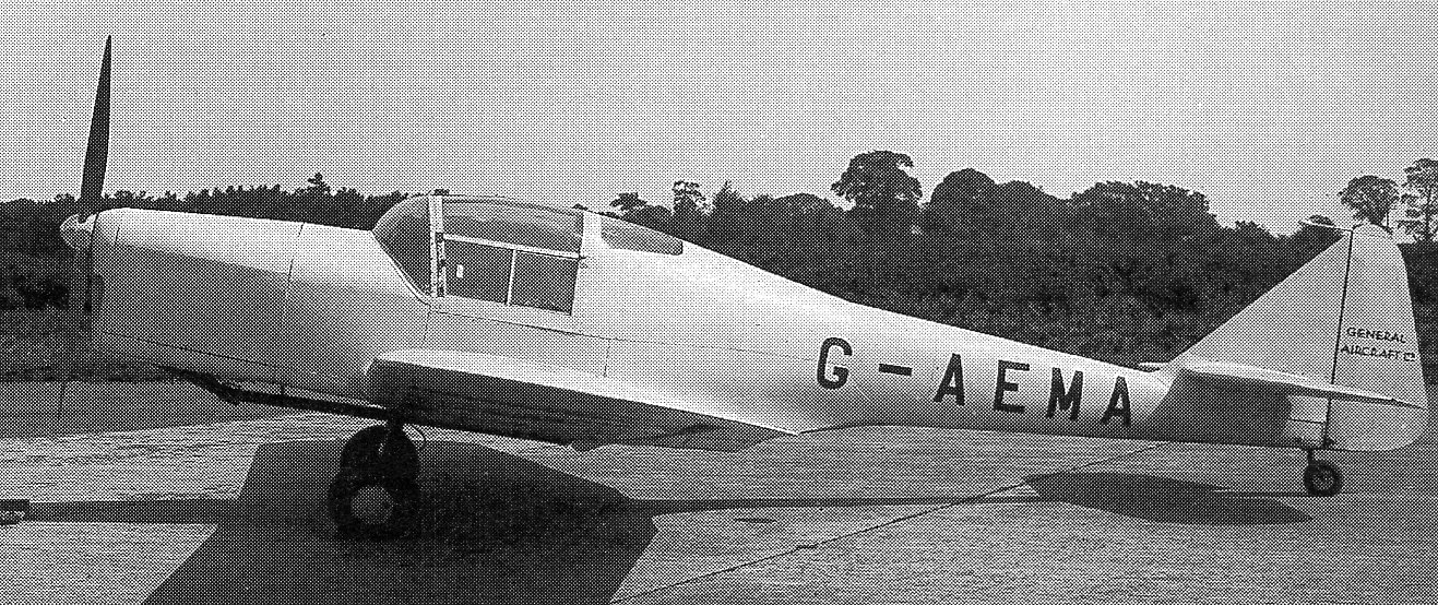 The first prototype General Aircraft Cygnet I in June 1938, with original single fin and tailwheel undercarriage but the backward raked windscreen replaced with rounded one.